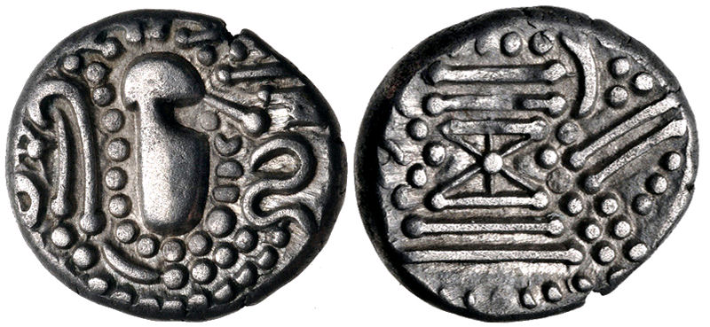 Chaulukya-Paramara coin circa AD 950-1050. AR Drachm (16mm, 4.41 g, 6h). Indo-Sasanian style bust right; pellets and ornaments around / Stylised fire altar; pellets around.